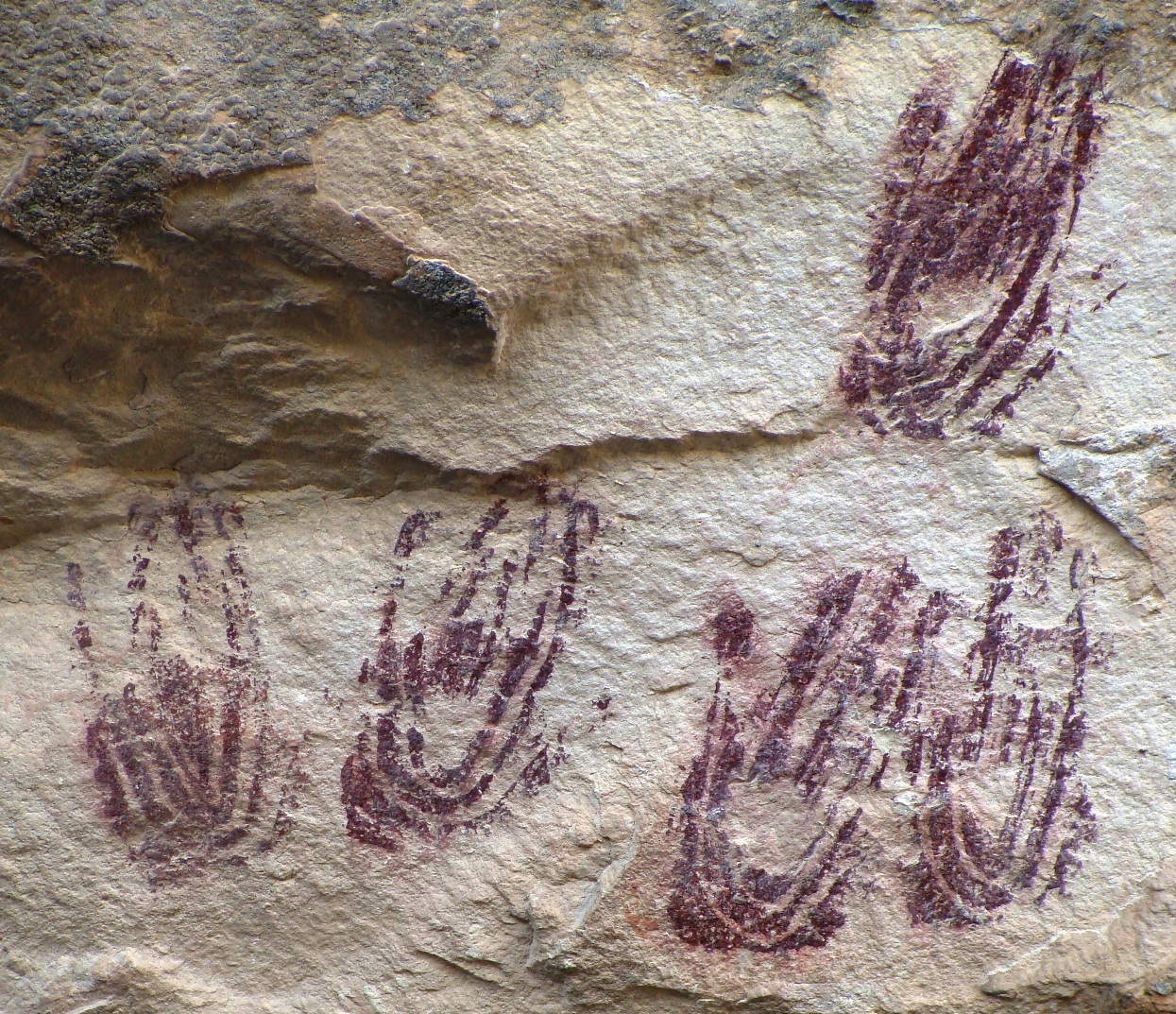 Seminole Canyon State Park and Historic Site, Texas. Native American wall engravings inside one of the prehistoric caves, thought to be thousands of years old. According to the park's tour guide, the hand paintings were made with a mixture of deer blood and local inorganic soil.